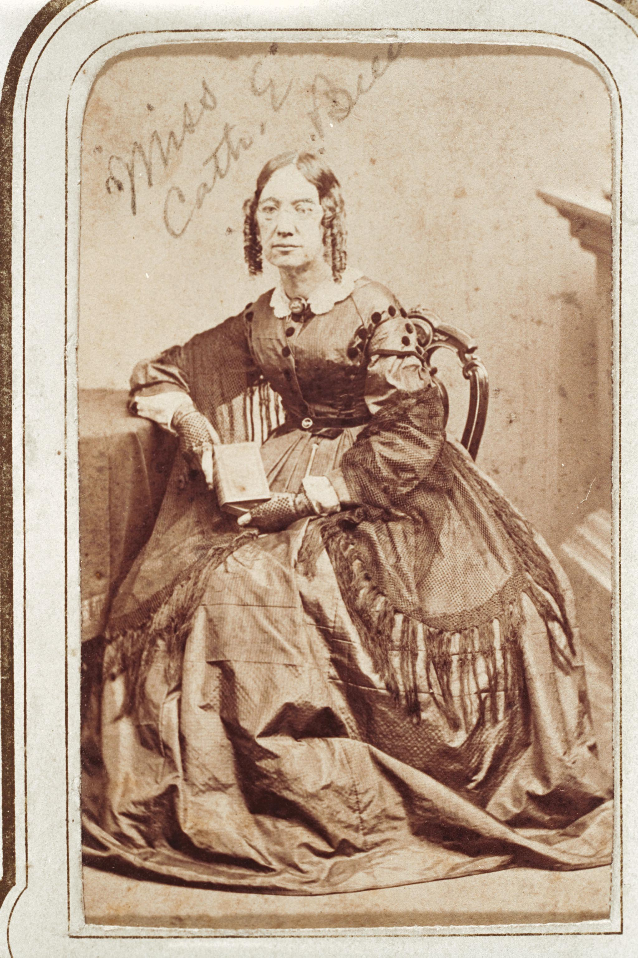 Catherine Beecher, ca. 1858-1862